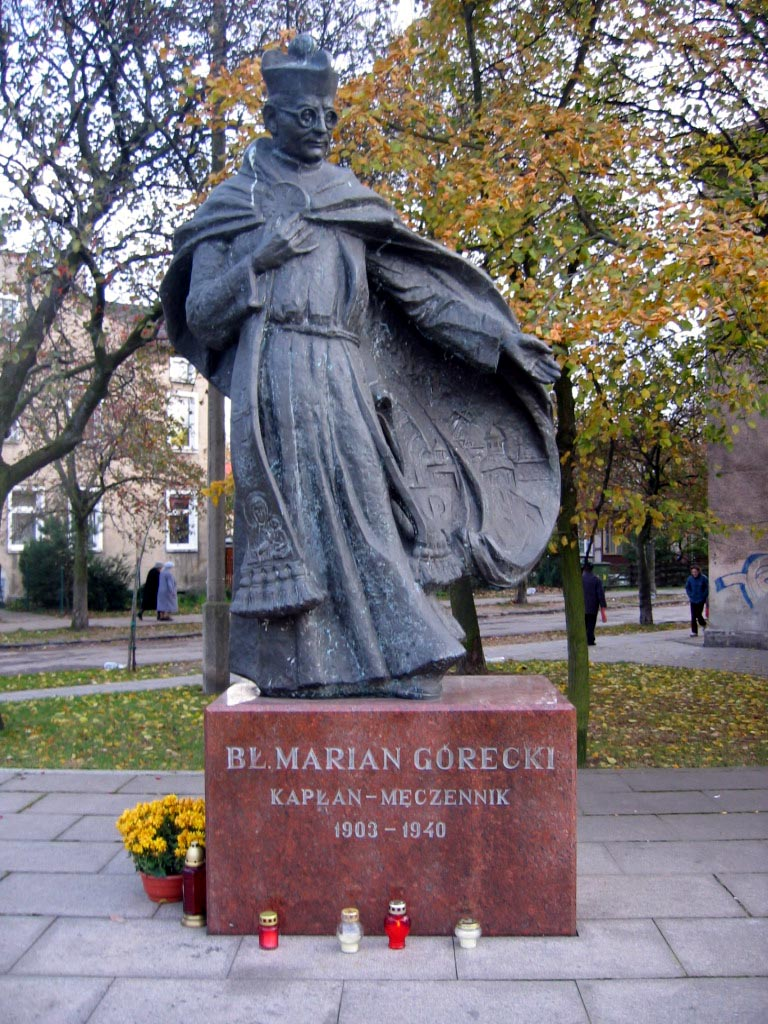 Monument of Rev. Marian Górecki in Gdańsk-Nowy Port.